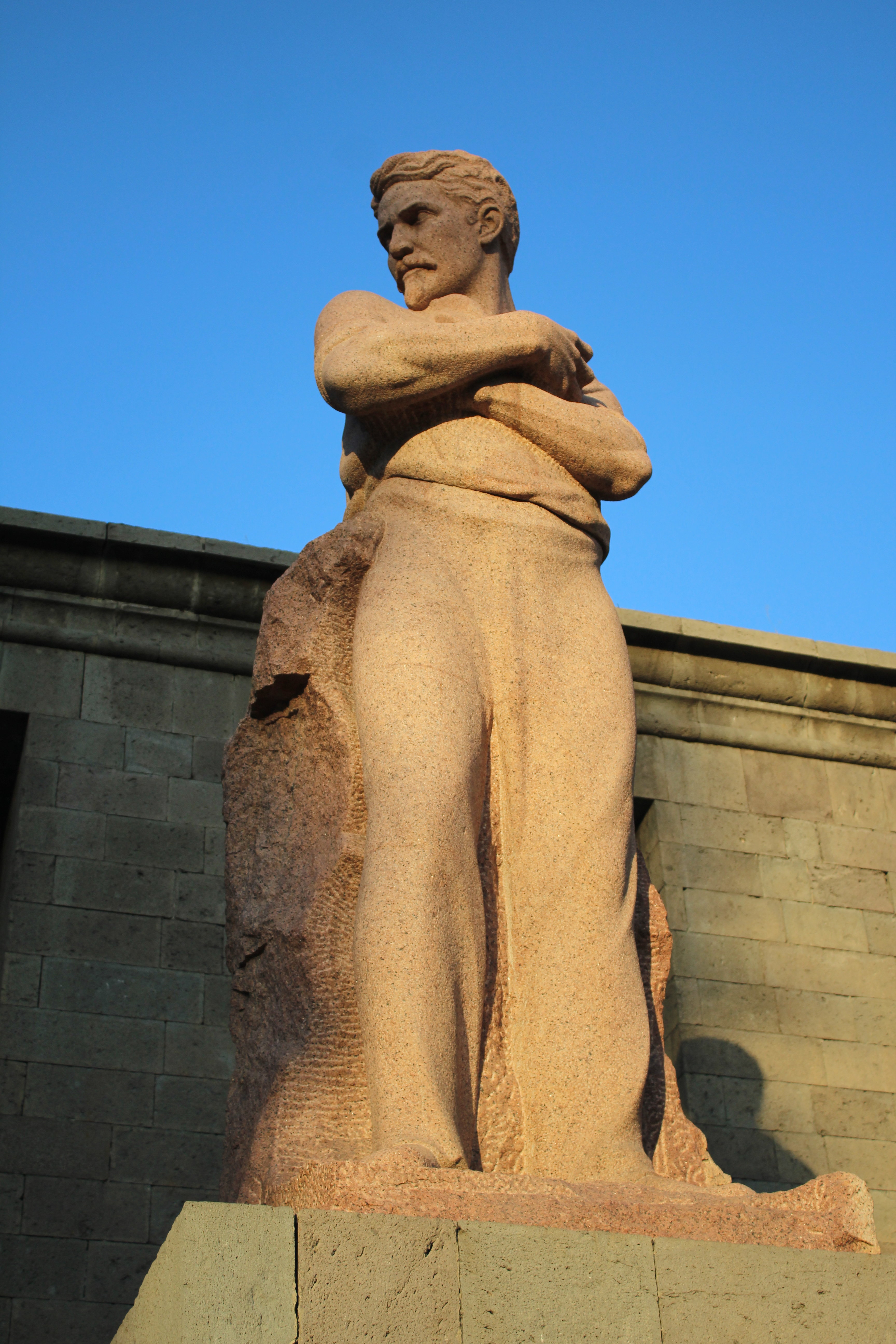 Shahumyan monument in Yerevan